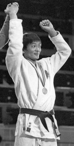 “Soviet sportsman Nikolai Solodukhin, the 22nd Olympic judo champion, having won the competition”. Soviet sportsman Nikolai Solodukhin (second right), the 22nd Olympic judo champion, having won the competition.